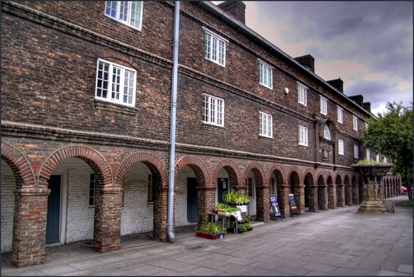 A high-quality shot of the front facade of the Holy Jesus Hospital in Newcastle-Upon Tyne England.